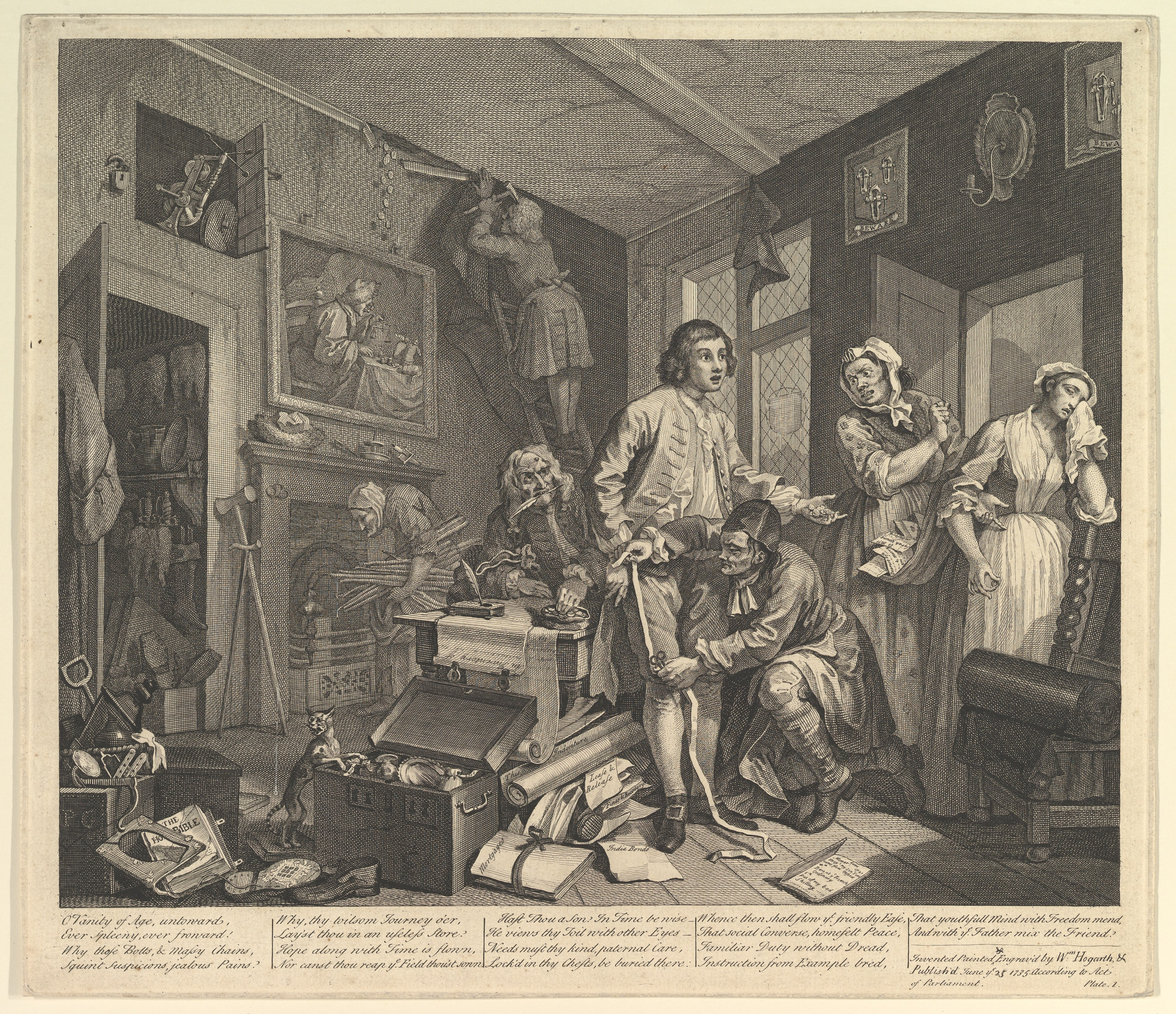 Print; Prints